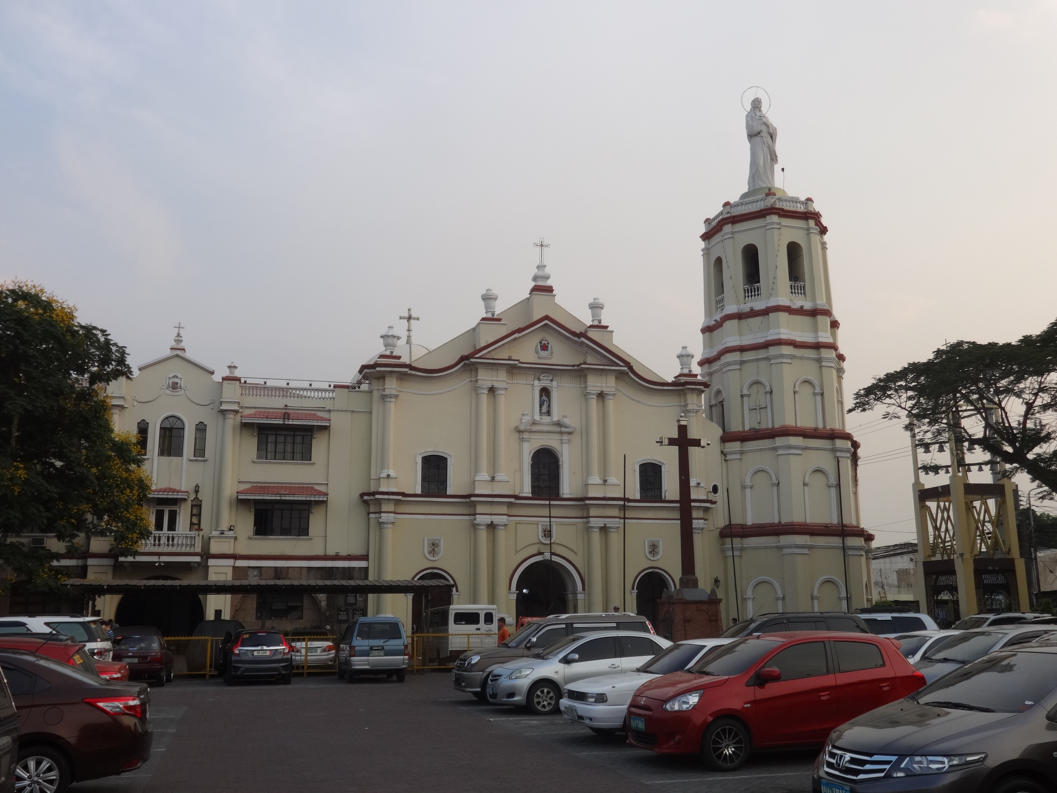 Minor Basilica of Our Lady of Immaculate Conception (Malolos Cathedral) in Malolos City, Bulacan